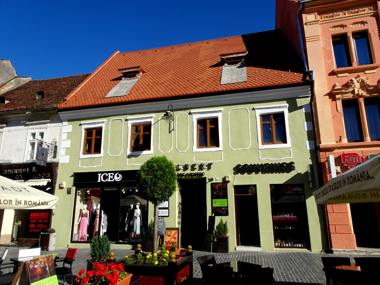 House on Republicii street, Brașov